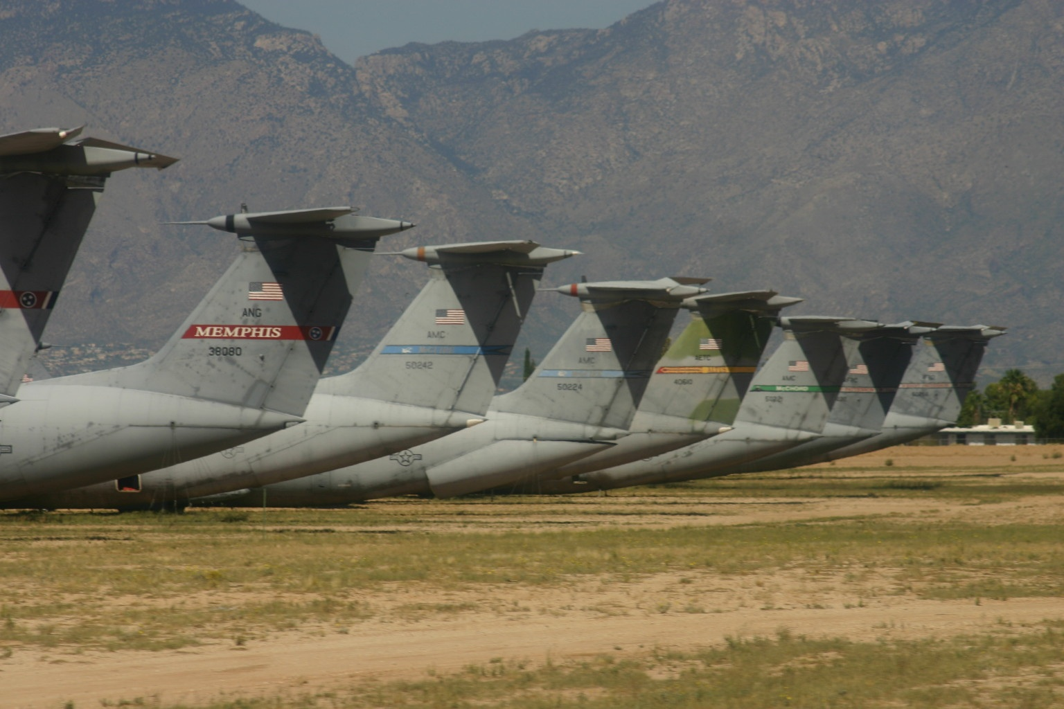 At Davis Monthan Air Force Base